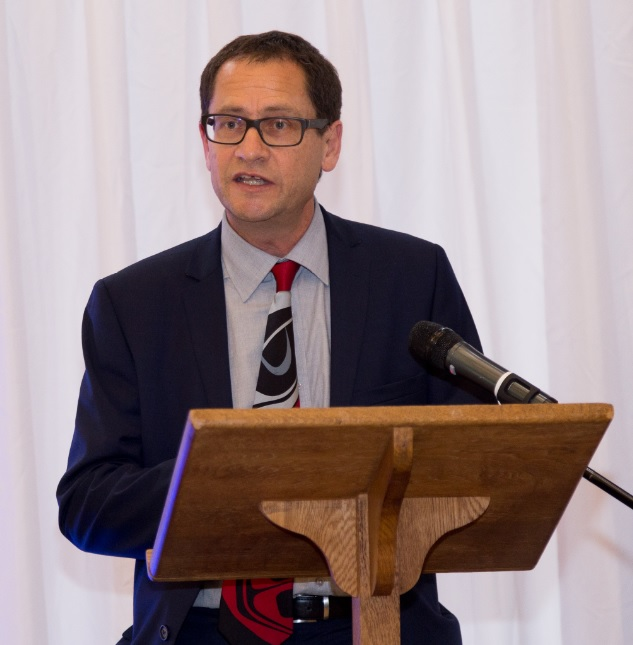 Taken at unveiling of Warden's portrait, St Antony's College, 2017